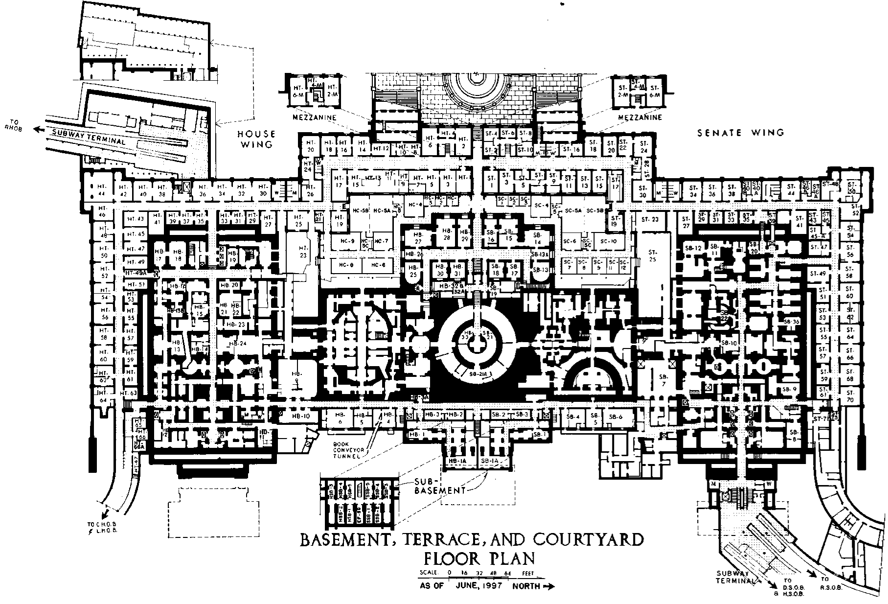 The basement floor plan of the United States Capitol, as it appeared in June 1997. Printed in the Official Congressional Directory for the 105th Congress.